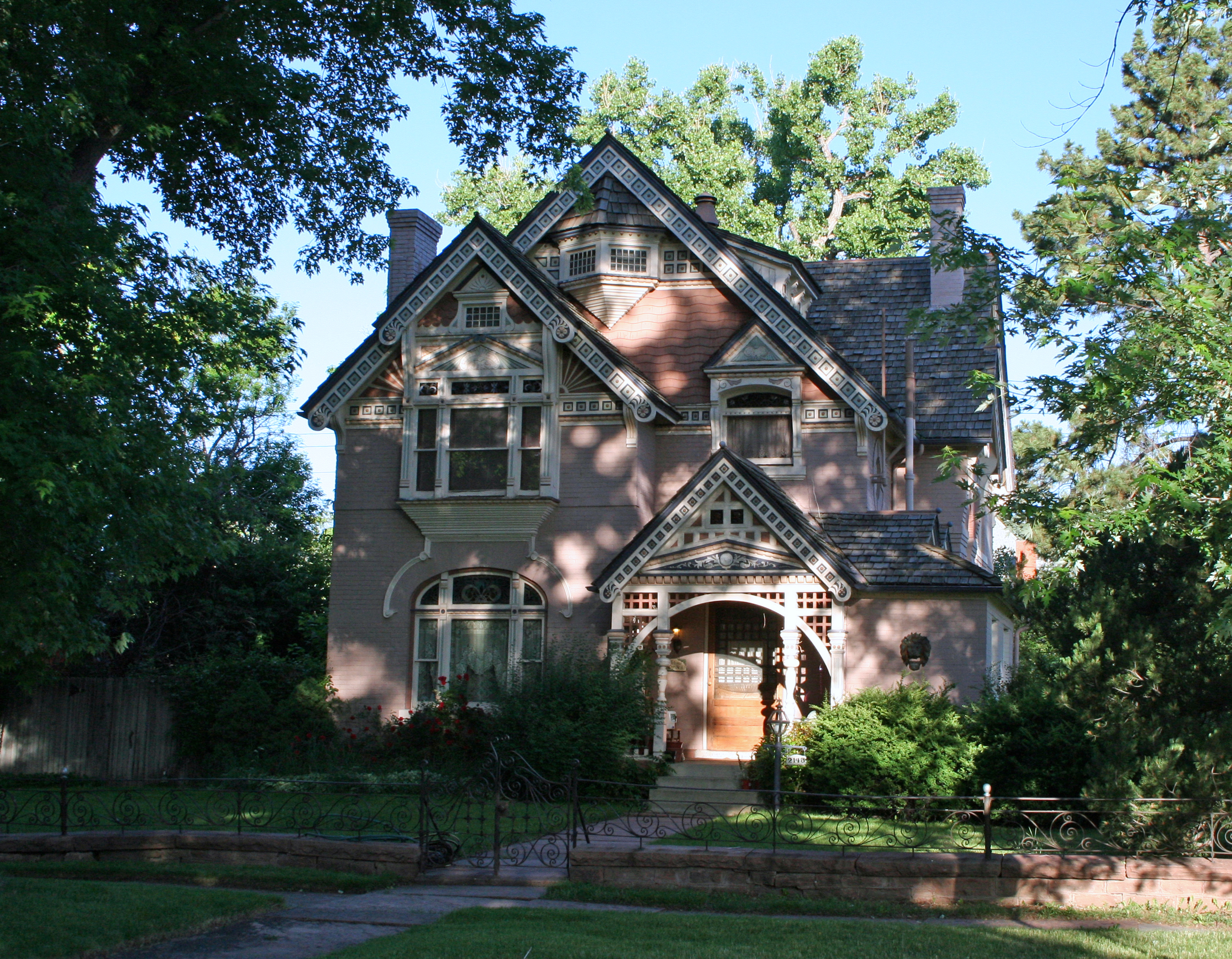 The Frederick W. Neef House, located at 2143 Grove Street in Denver, Colorado